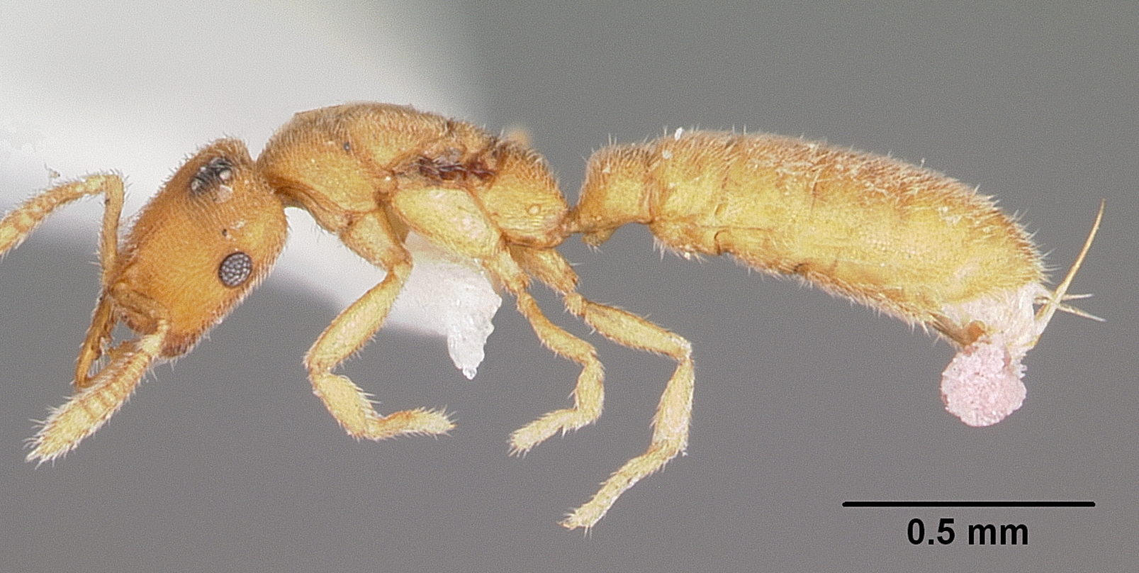 Profile view of ant Bannapone mulanae specimen casent0104980.